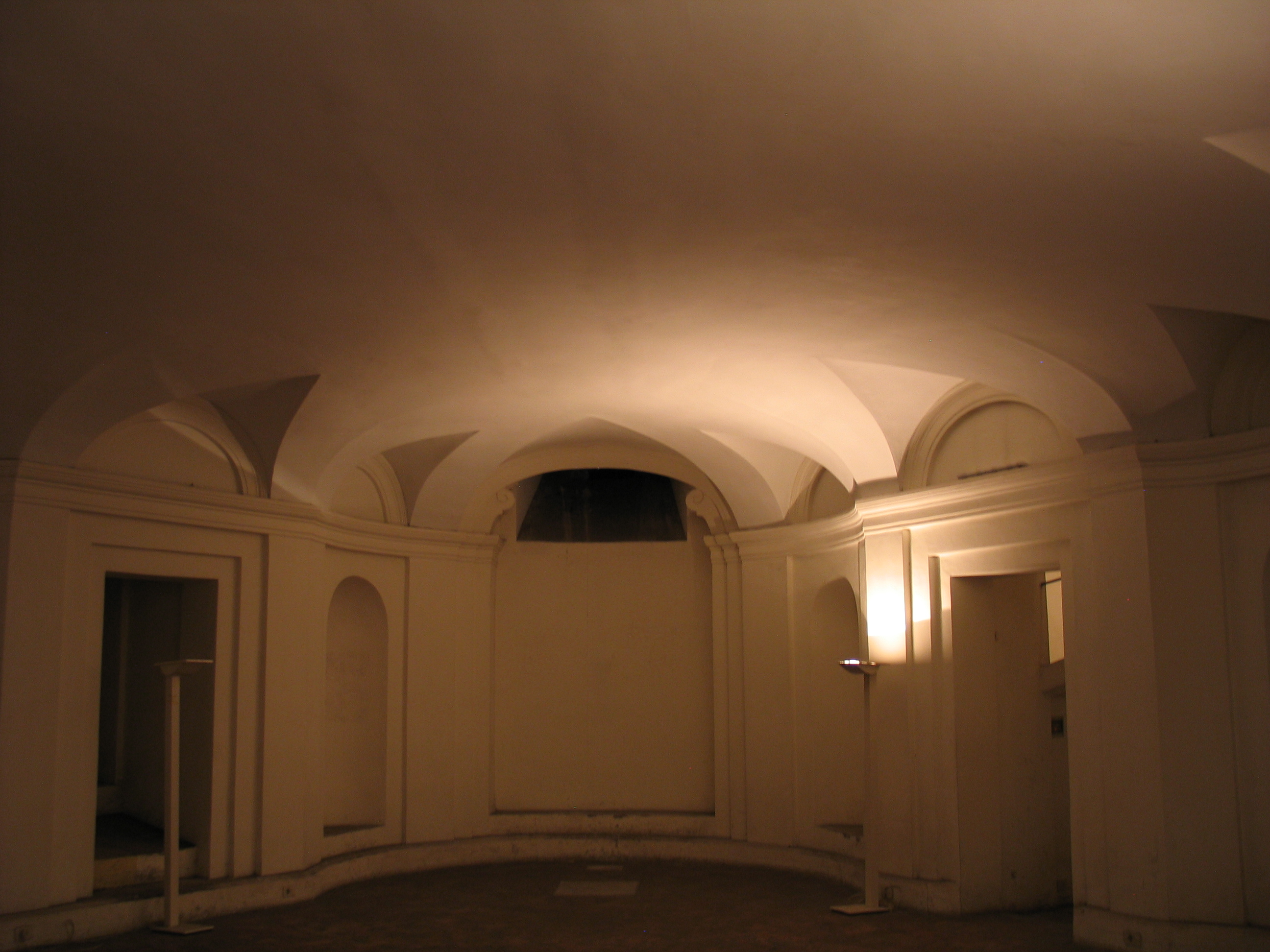 Crypt of San Carlo alle Quattro Fontana in Rome. Church was constructed by Francesco Borromini between 1638 and 1641. This part of the crypt was originally intended to be the burial place of Borromini. Because he committed suicide, he could not be buried in this church.